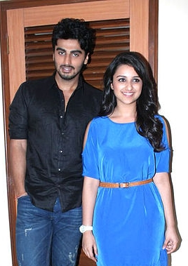 Arjun Kapoor,Parineeti Chopra From The Arjun Kapoor & Parineeti promote 'Ishaqzaade'